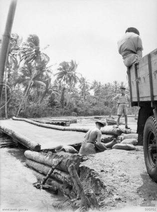 MILNE BAY, NEW GUINEA. 1942-09-21. ROYAL AUSTRALIAN ENGINEERS TROOPS REPAIRING THE BRIDGE ON THE MAIN ROUTE BETWEEN PONTOON WHARF AND THE GILI GILI - WAIGANI AREA. THE BRIDGE ENDS WERE WASHED AWAY AS A RESULT OF 10 INCHES OF RAIN IN 48 HOURS. MAJOR-GENERAL C. A. CLOWES (1), STANDS IN THE BACKGROUND.